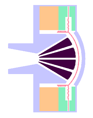 Diagram of a compression driver, focusing on the phase plug in black. Light blue: housing. Orange: permanent magnet. Green: diaphragm mount. Red: diaphragm including voice coil and surround.